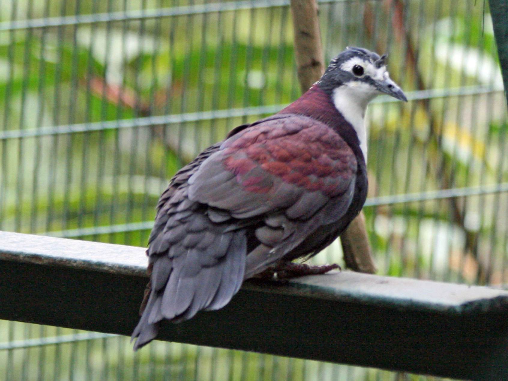 Purple Ground Dove, also White-breasted Ground Dove (Gallicolumba jobiensis) - San Diego Zoo